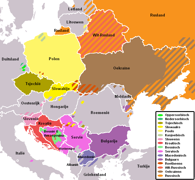 Map of Slavic language in Dutch.